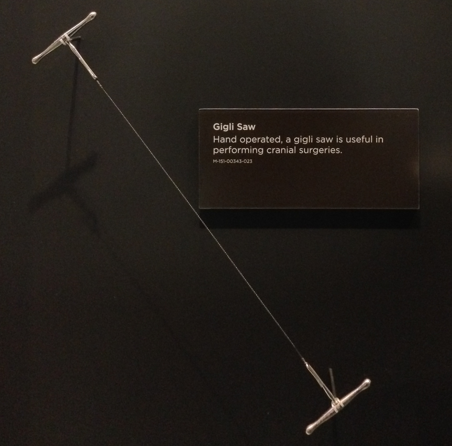 Hand operated, a gigli saw is useful in performing cranial surgeries. [Text from the public domain created by the National Museum of Health and Medicine, an entity of the United States Government.]